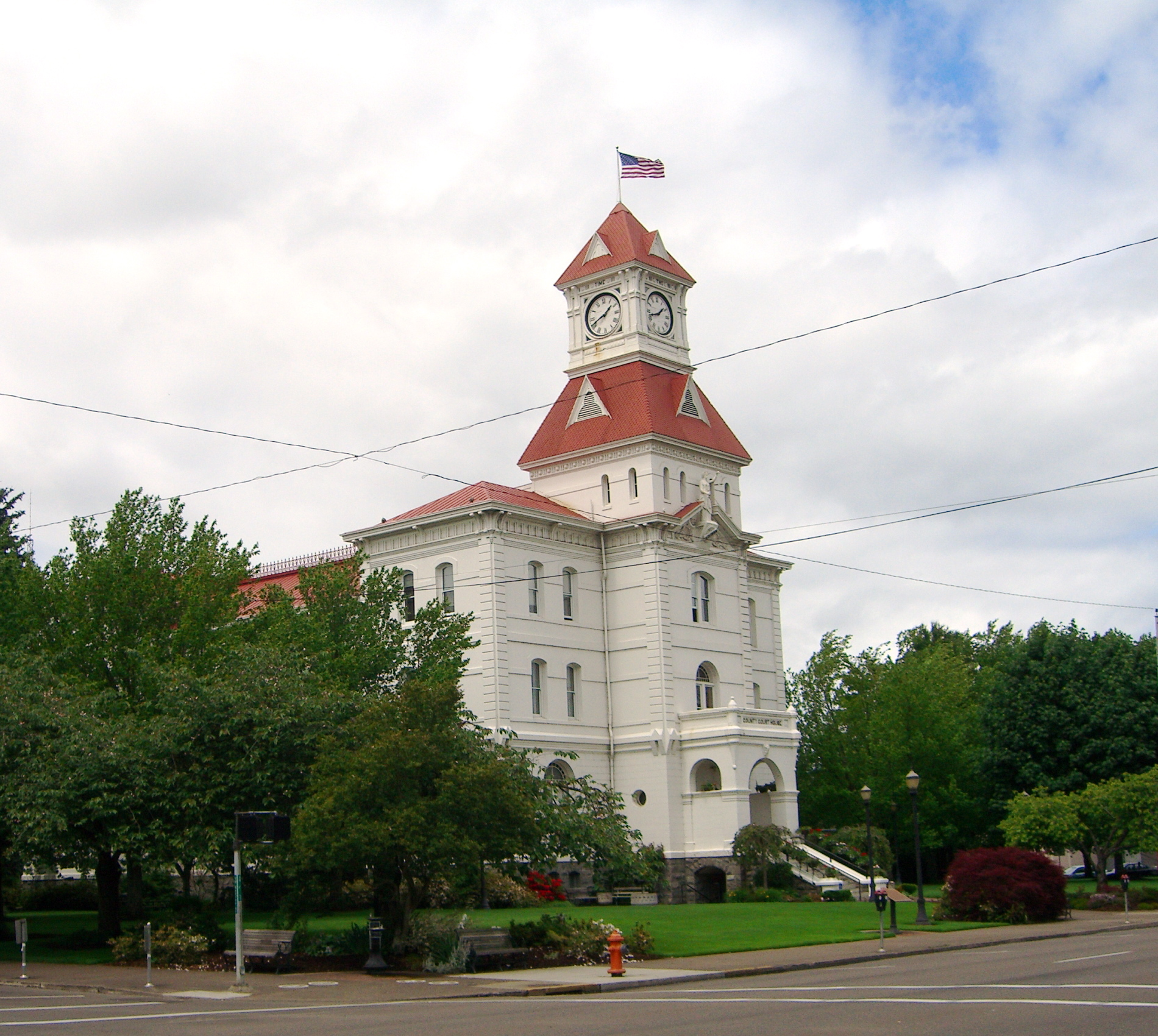 Benton County Court House in Corvallis, Oregon Object location44° 33′ 57″ N, 123° 15′ 38″ W